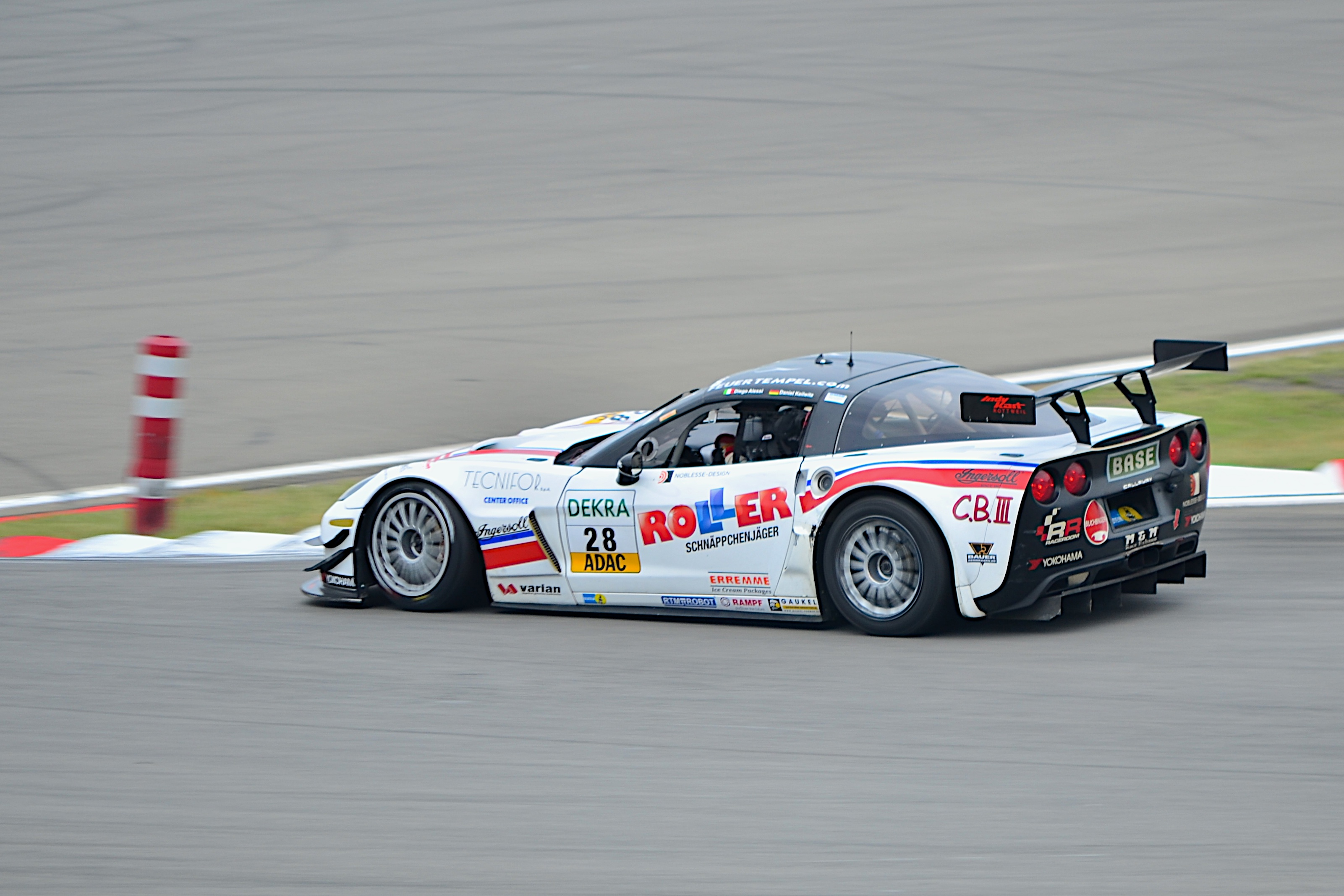 Photo taken during the 13th run of the ADAC GT Masters Championship at the Nürburgring Grand Prix Course. Driver: Diego Alessi for Callaway Competition